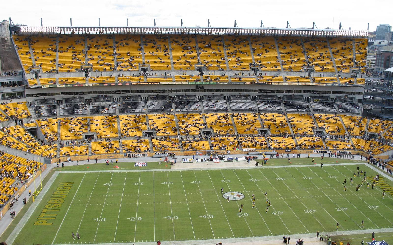 Heinz Field during practice before game